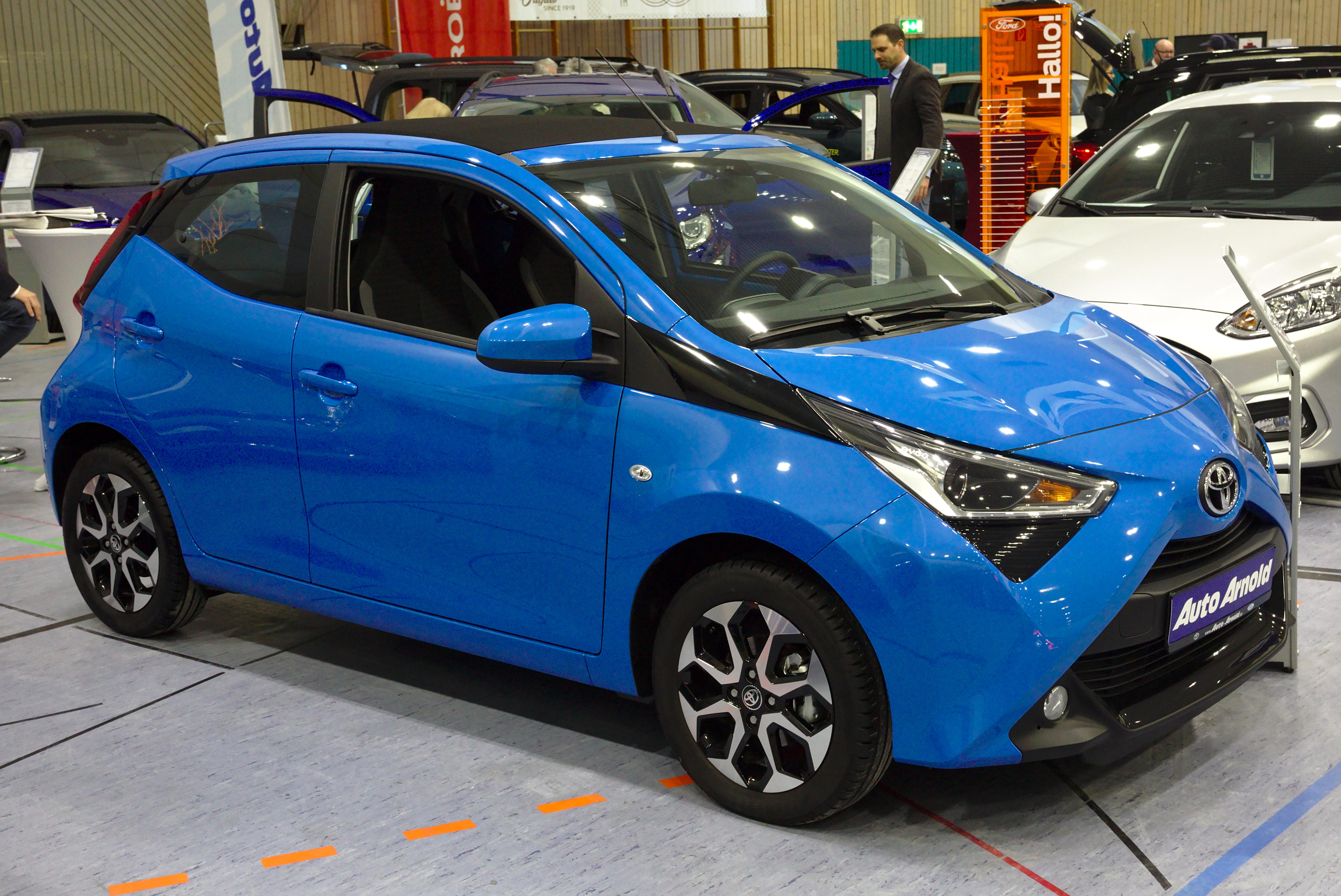 Toyota Aygo at Autosalon Filderstadt 2019